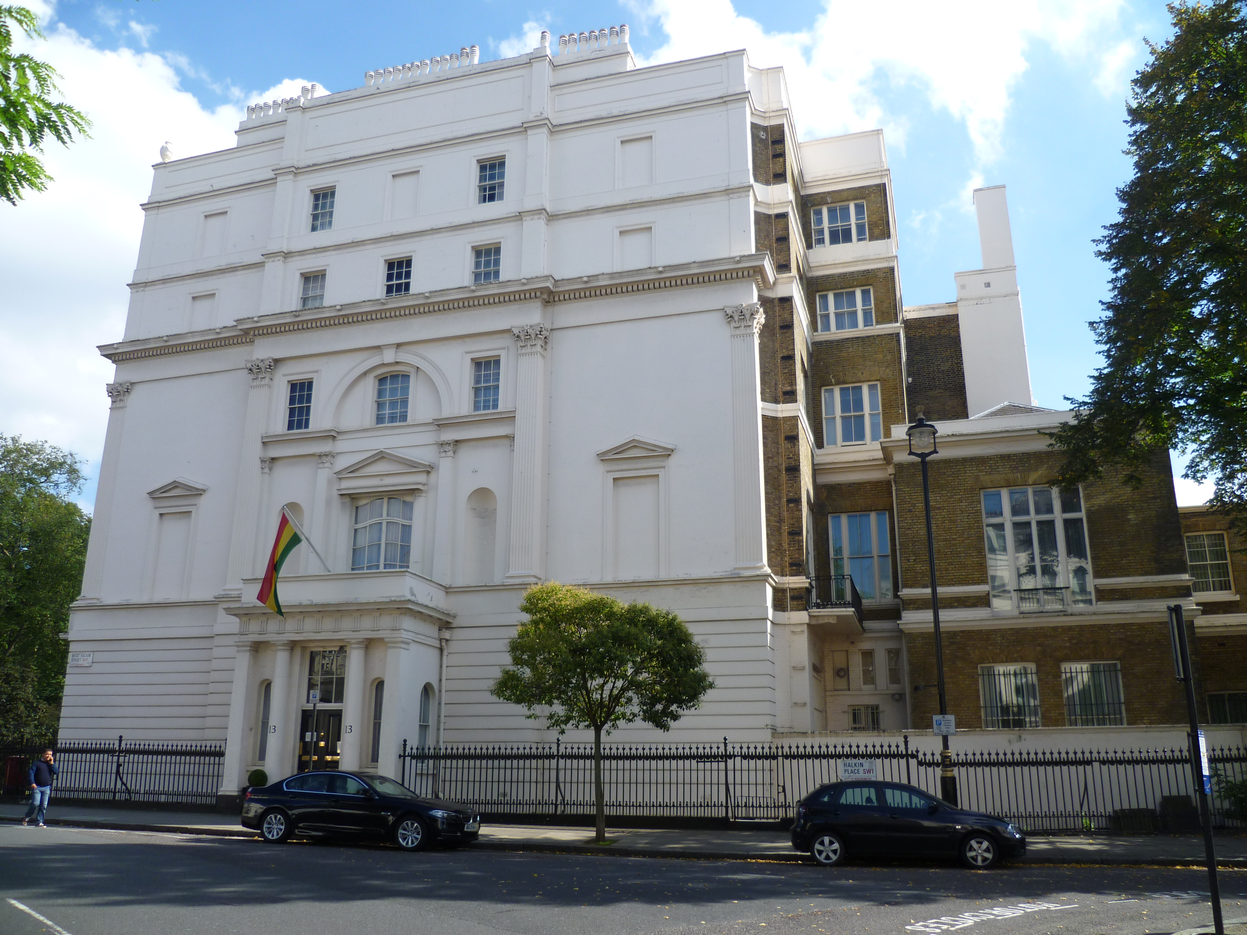 West Halkin Street